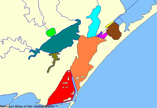 Aransas Bay (orange), Redfish Bay (red), Mission Bay (lime), Port Bay (olive), Copano Bay (aquamarine), Saint Charles Bay (light blue), Dunham Bay (violet), Carlos Bay (pink), Sundown Bay (yellow) and Mesquite Bay (brown).